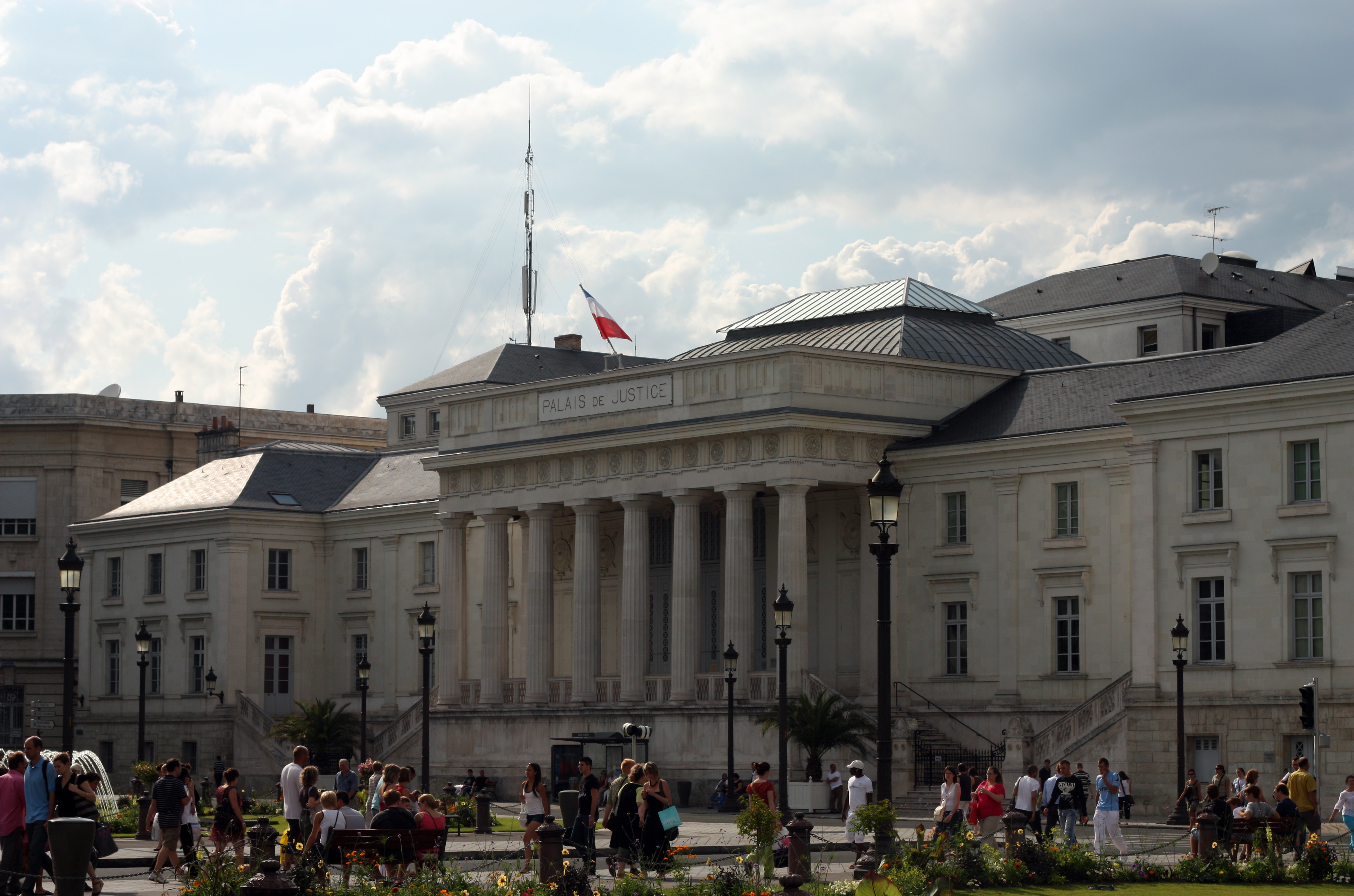 The courthouse of Tours.